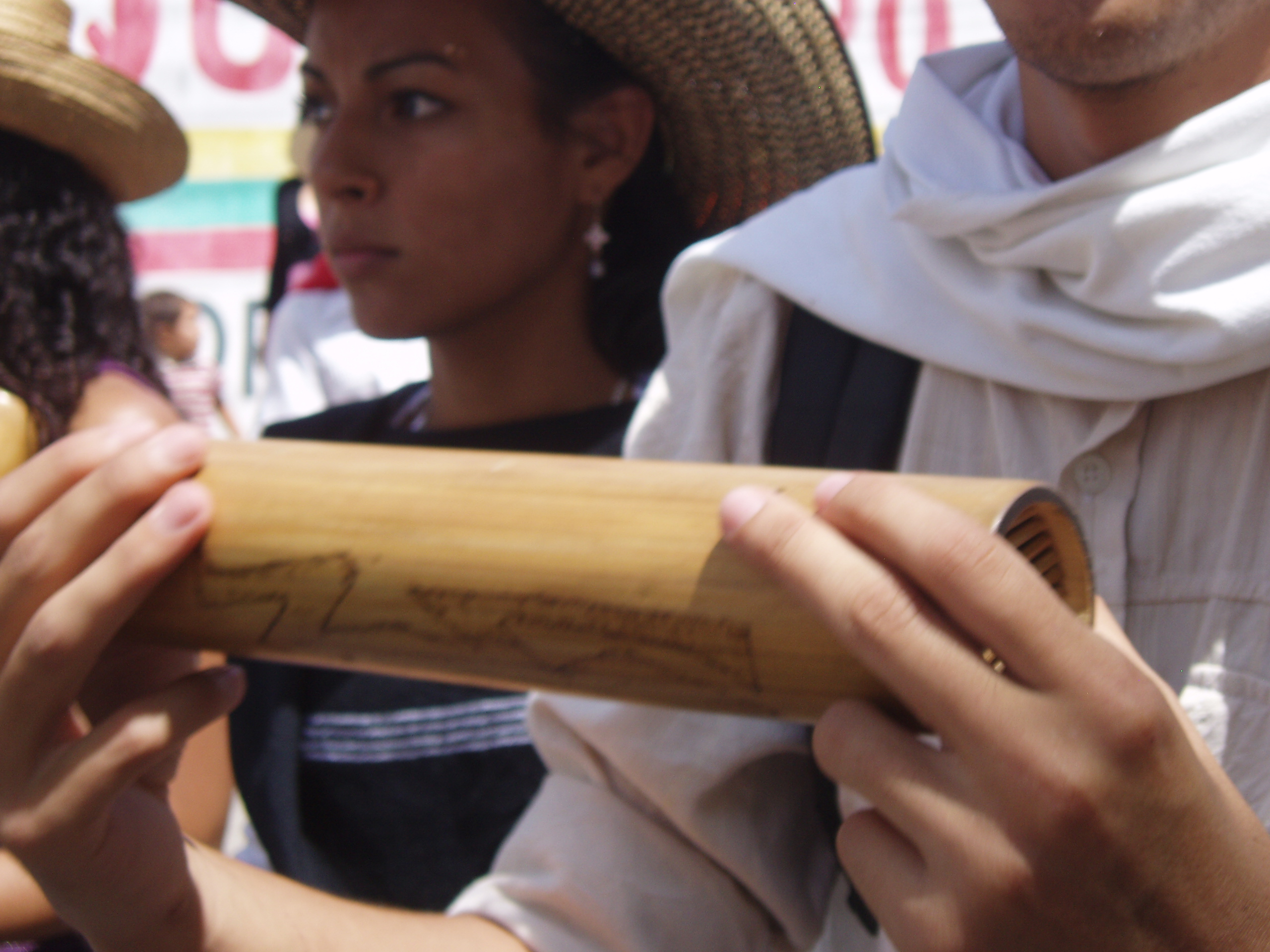 Maraka Pijao